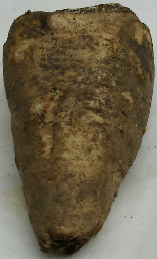 An arracacha root, partially covered by dirt. Picture taken by Fibonacci.